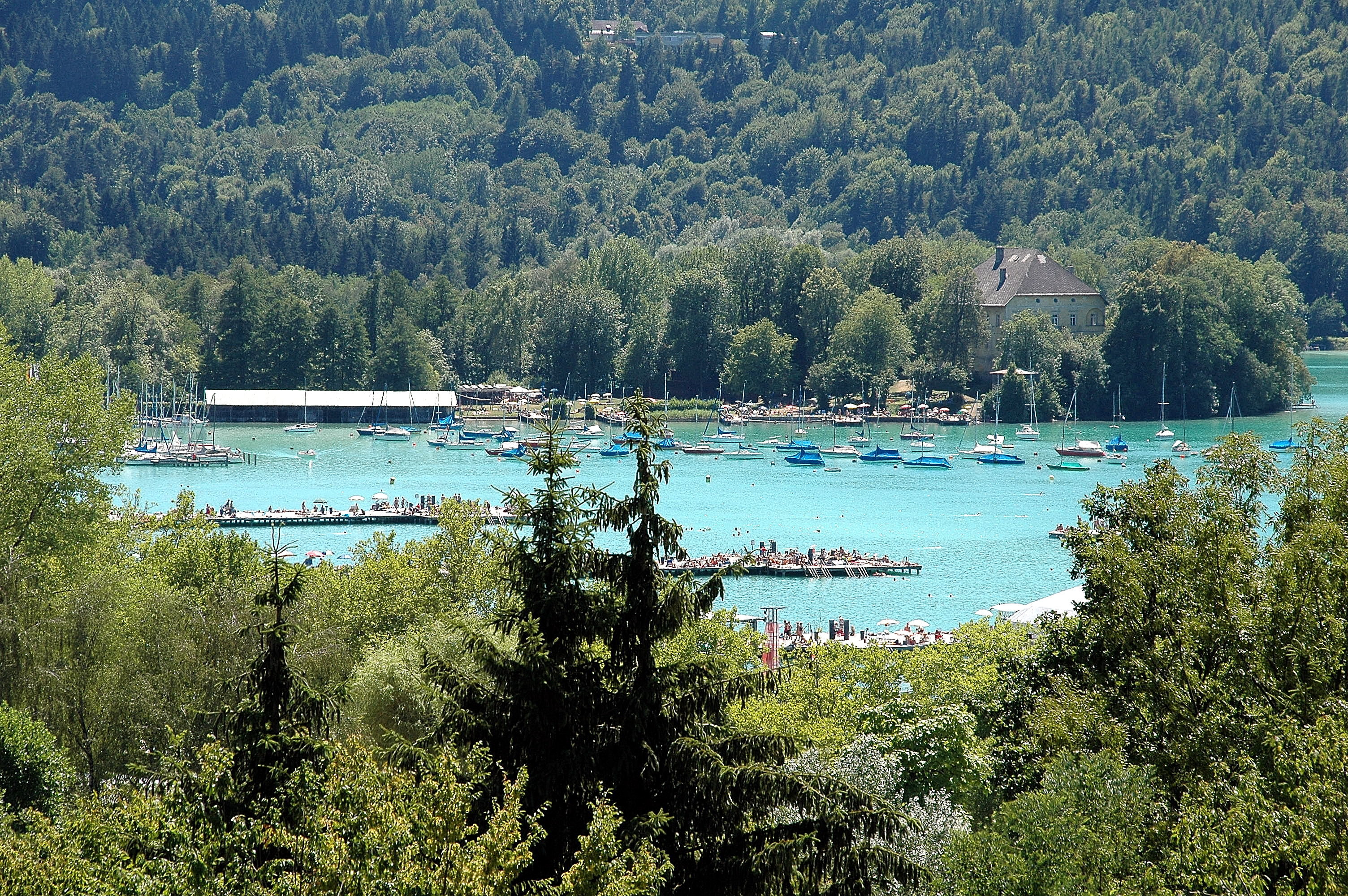 East-bay of Lake Woerth with Maria Loretto, Klagenfurt, Carinthia, Austria